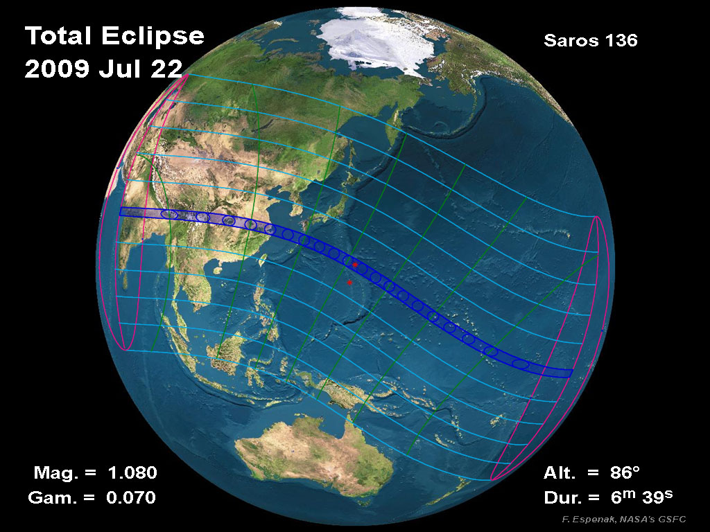 The sun esclipse that will happen on 22nd July, 2009.